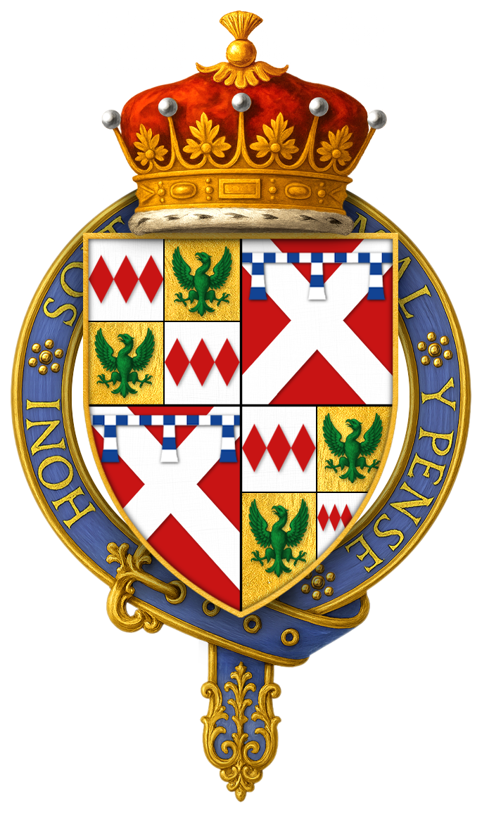 Sir Richard Neville, 5th Earl of Salisbury, KG HOPE, W. H. St. John, The Stall Plates of the Knights of the Order of the Garter 1348 – 1485: A Series of Ninety Full-Sized Coloured Facsimiles with Descriptive Notes and Historical Introductions, Westminster: Archibald Constable and Company LTD, 1901. “ Sir Richard Nevill, Earl of Salisbury, K.G. c.1436-1460...the arms, quarterly: 1 and 4, silver three fusils in fess gules (for Montacute), quartering gold an eagle vert (for monthermer); 2 and 3, gules a saltire silver and a label gobony of silver and sable (for Nevill). ” The Stall plate remains intact within the eleventh stall, on the Sovereign's side of the chapel. See also the seal of Richard Neville, Earl of Salisbury (1400-1460), from a grant of the advowson of Ringwood rectory.